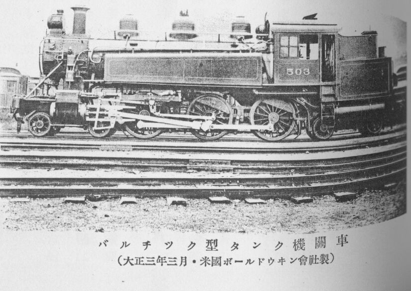 Photo of Chosen Government Railway steam locomotive Barui-503